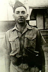 c. 1942. Portrait of 253939 Flight Lieutenant Leigh "Golden Voice" Vial RAAF. Vial was a coastwatcher and intelligence officer in New Guinea. Vial sometimes flew in the aircraft which dropped propaganda leaflets. During one of these flights in a Liberator aircraft on 30 April 1943 Vial was killed when the aircraft crashed in the Medang-Wewak area. (Original print housed in AWM Archive Store) (Donor R. Piper)